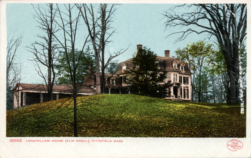 Longfellow House (Elm Knoll)